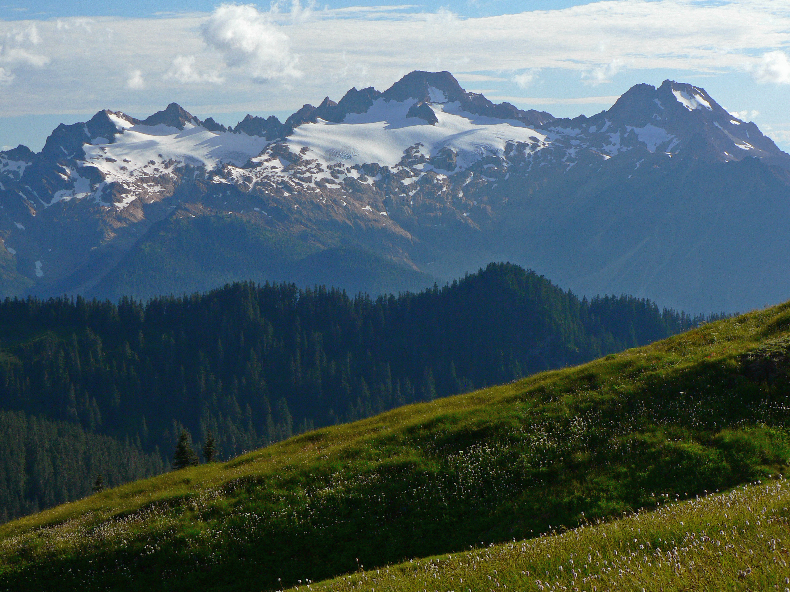 Twin Sisters Mountain South Twin (7000+ feet, 2134+ m, center); North Twin (6640+ feet, 2024+ m, right); Sisters Glacier; Marmot Ridge (middle distance)